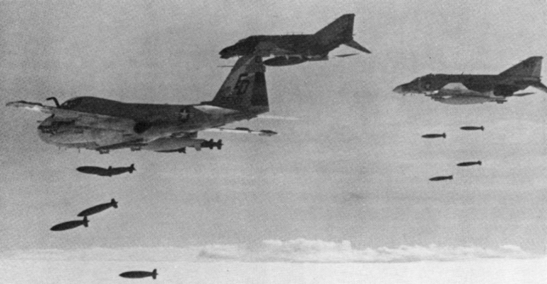 A U.S. Marine Corps Grumman A-6A Intruder from Marine All-Weather Attack Squadron VMA(AW)-533, a McDonnell F-4J Phantom II from Marine Fighter Attack Squadron 232, and a U.S. Air Force F-4D conduct a LORAN-assisted bombing in Cambodia. Note the LORAN-antenna on the back of the USAF F-4D. The U.S. had set up a LORAN transmitter site in Phnom Penh to provide close air support to Cambodian government troops.